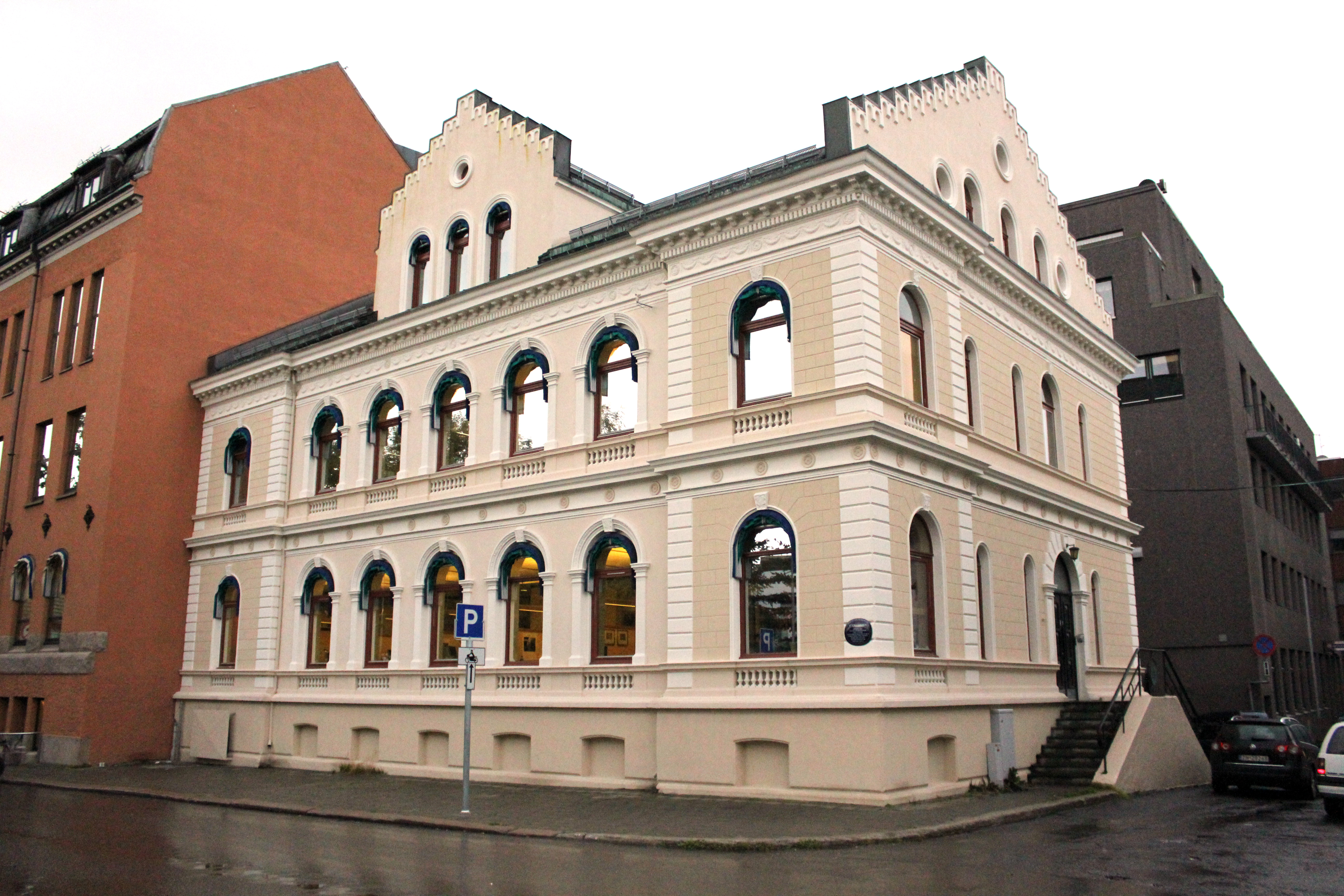 Bankgata in Tromsø, Norway. Oldest building made of bricks in the city.